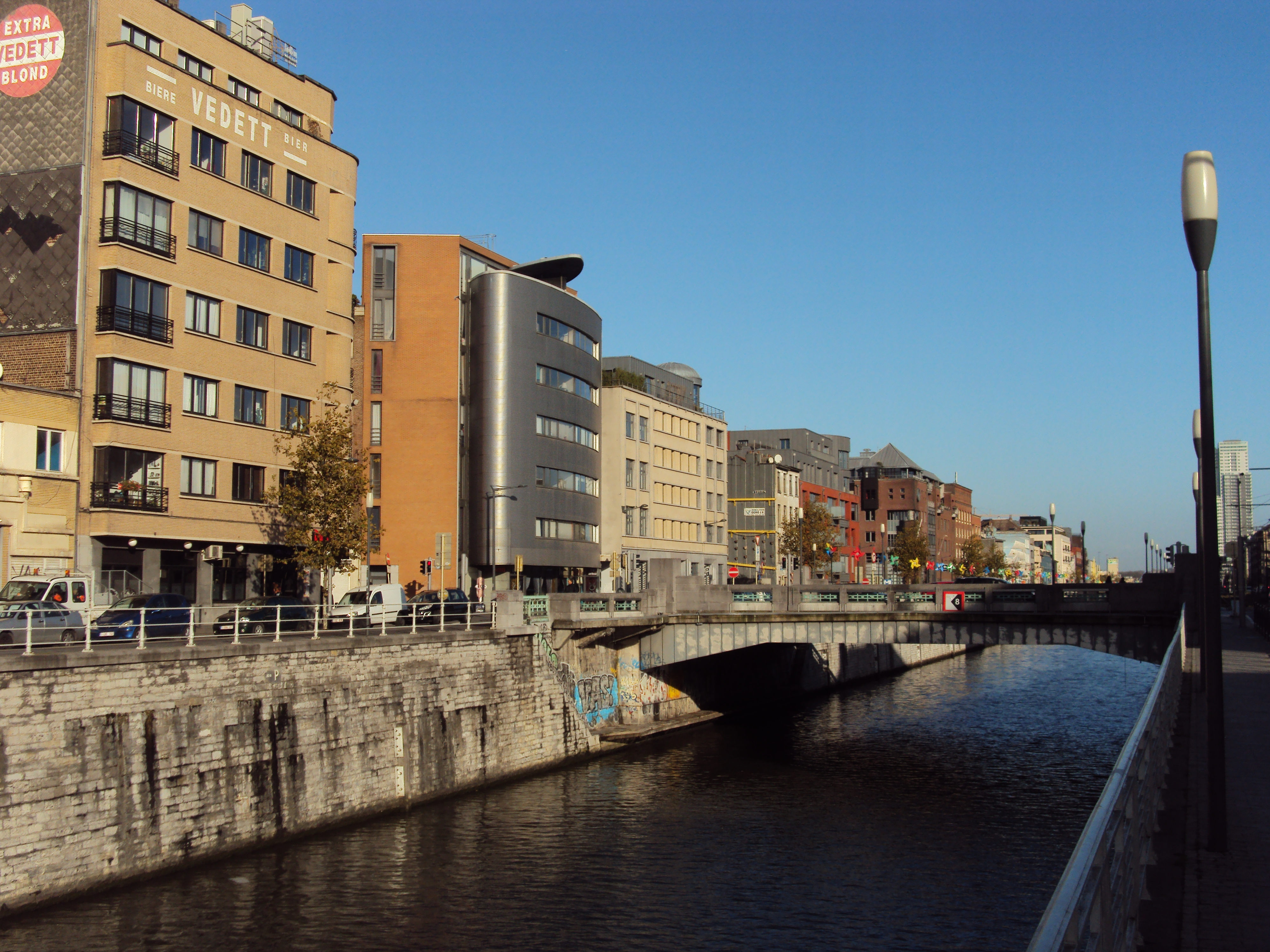 Brussels–Charleroi Canal with the western bank, which is the eastern limit of Sint-Jans-Molenbeek, seen from South, with the Bridge Porte de Flandre/Vlaamsepoort